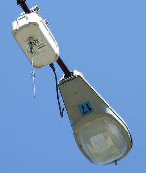 Image of the Ricochet box taken in suburban Detroit